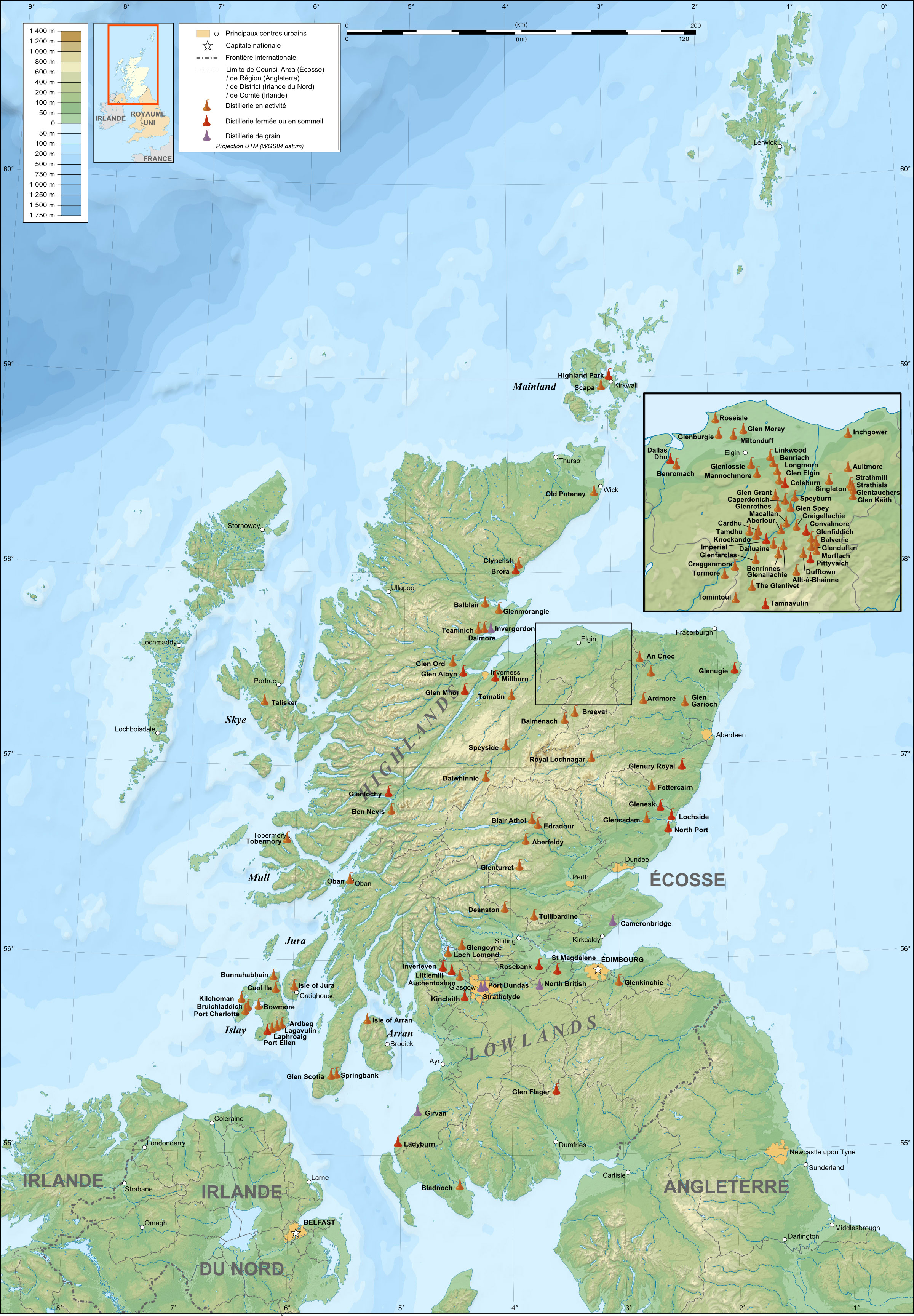 Map of Whisky distilleries in Scotland in French. This is a lighter raster JPG format version of Image:Scotland_topographic_map-fr.svg which should be used in the article pages, the vector graphics version purpose being for modification and / or translation.